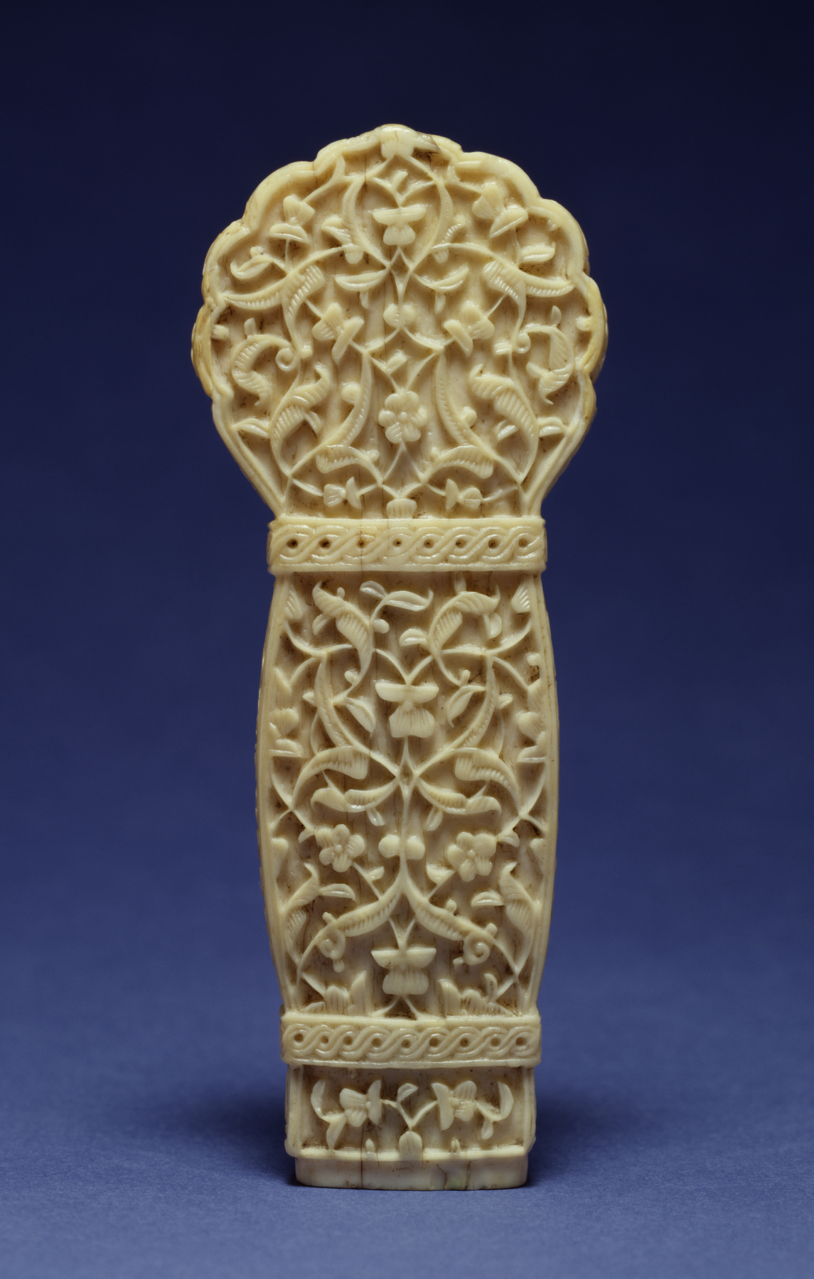 This is a rare example of a 16th-century Turkish ivory hilt, delicately carved in relief with arabesque designs of interlacing foliage scrolls.